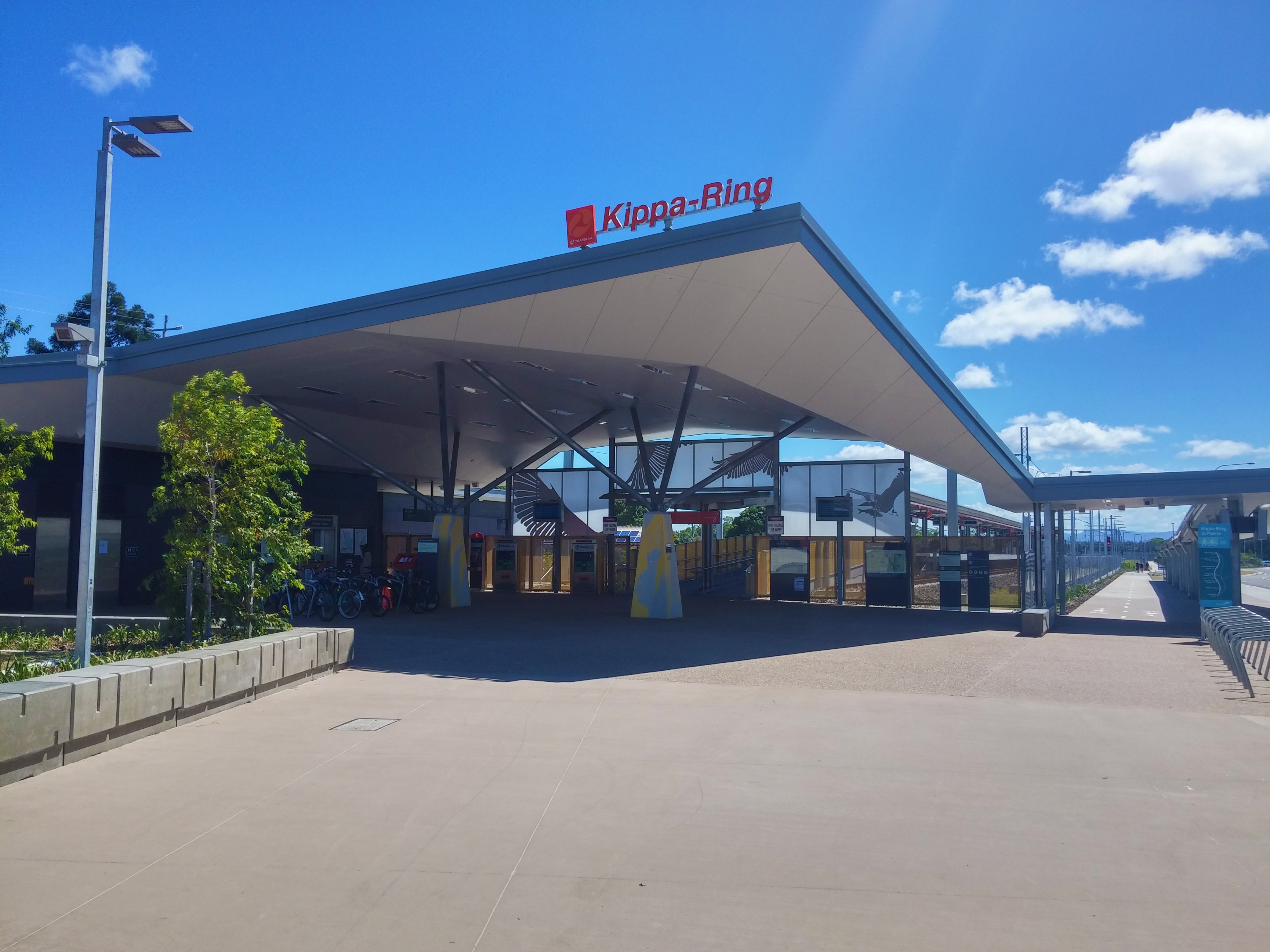 Kippa-Ring railway station on the Moreton Bay line in Brisbane.